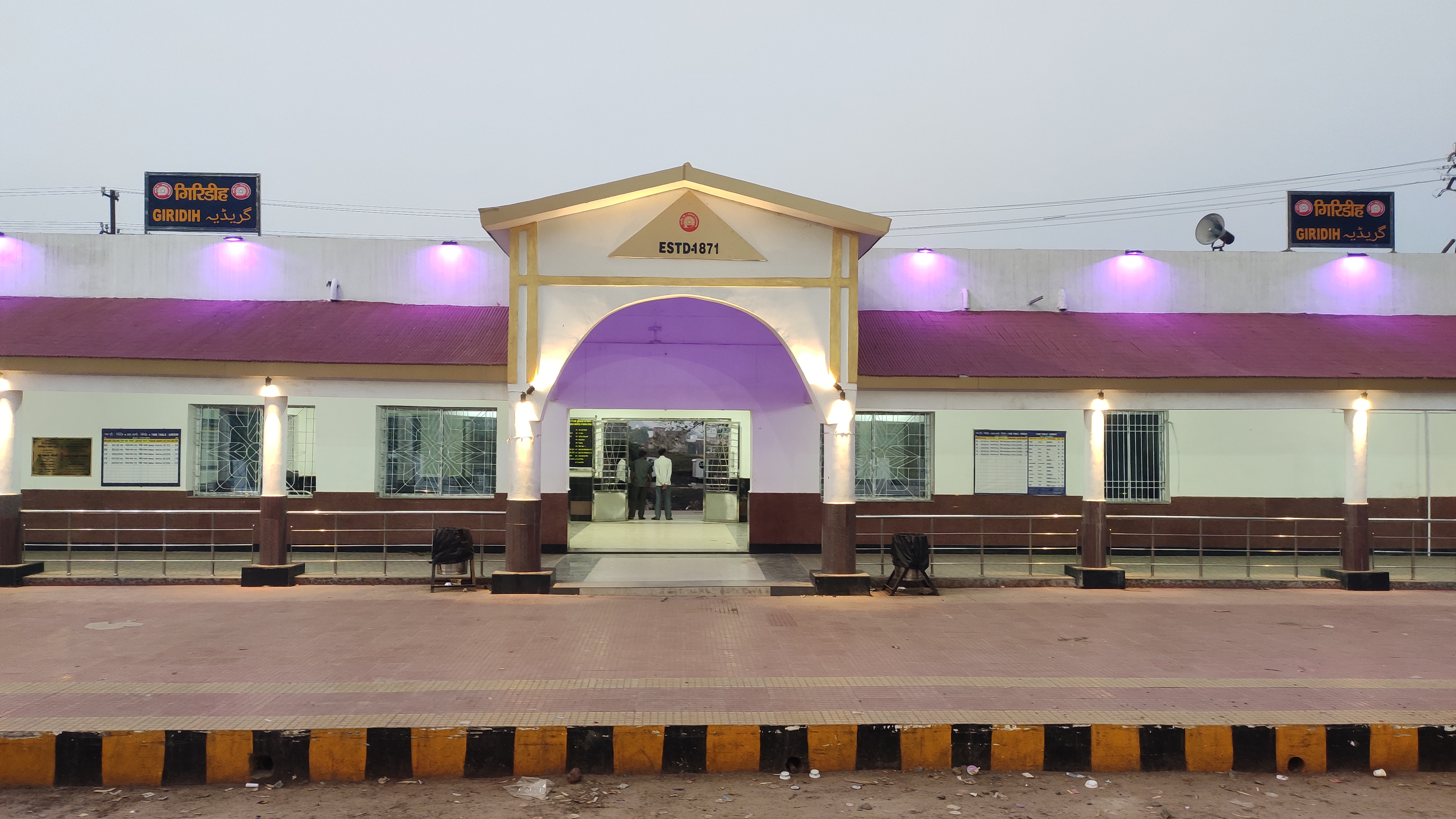 latest photo of entrance of Giridih railway station